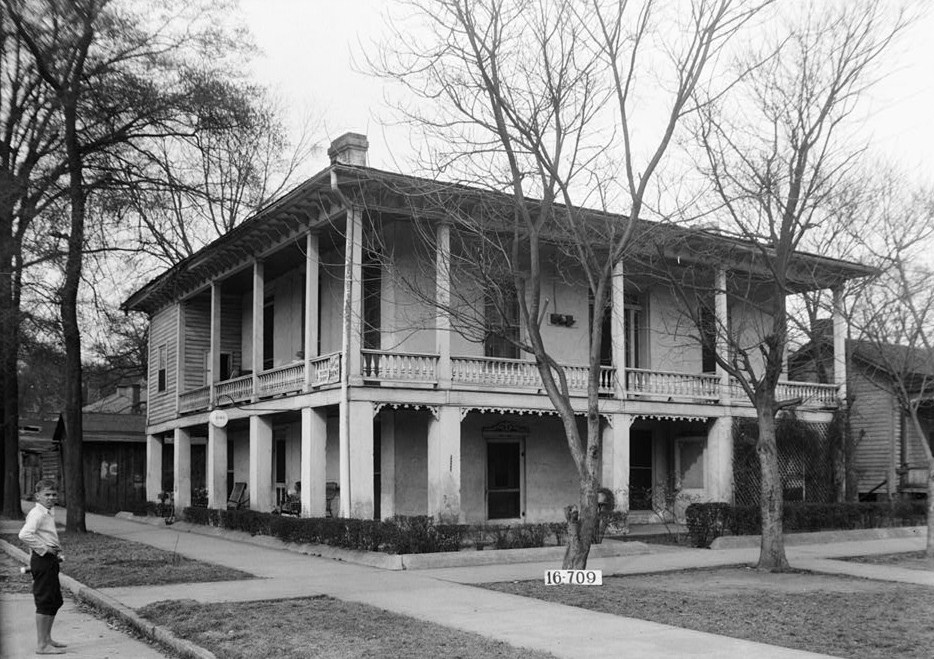 HABS description:Dr. Kirkpatrick House, 601 Washington Street, Selma, Dallas County, AL. FRONT VIEW. Wesley Plattenburg House in Selma, Alabama, listed on the National Register of Historic Places.